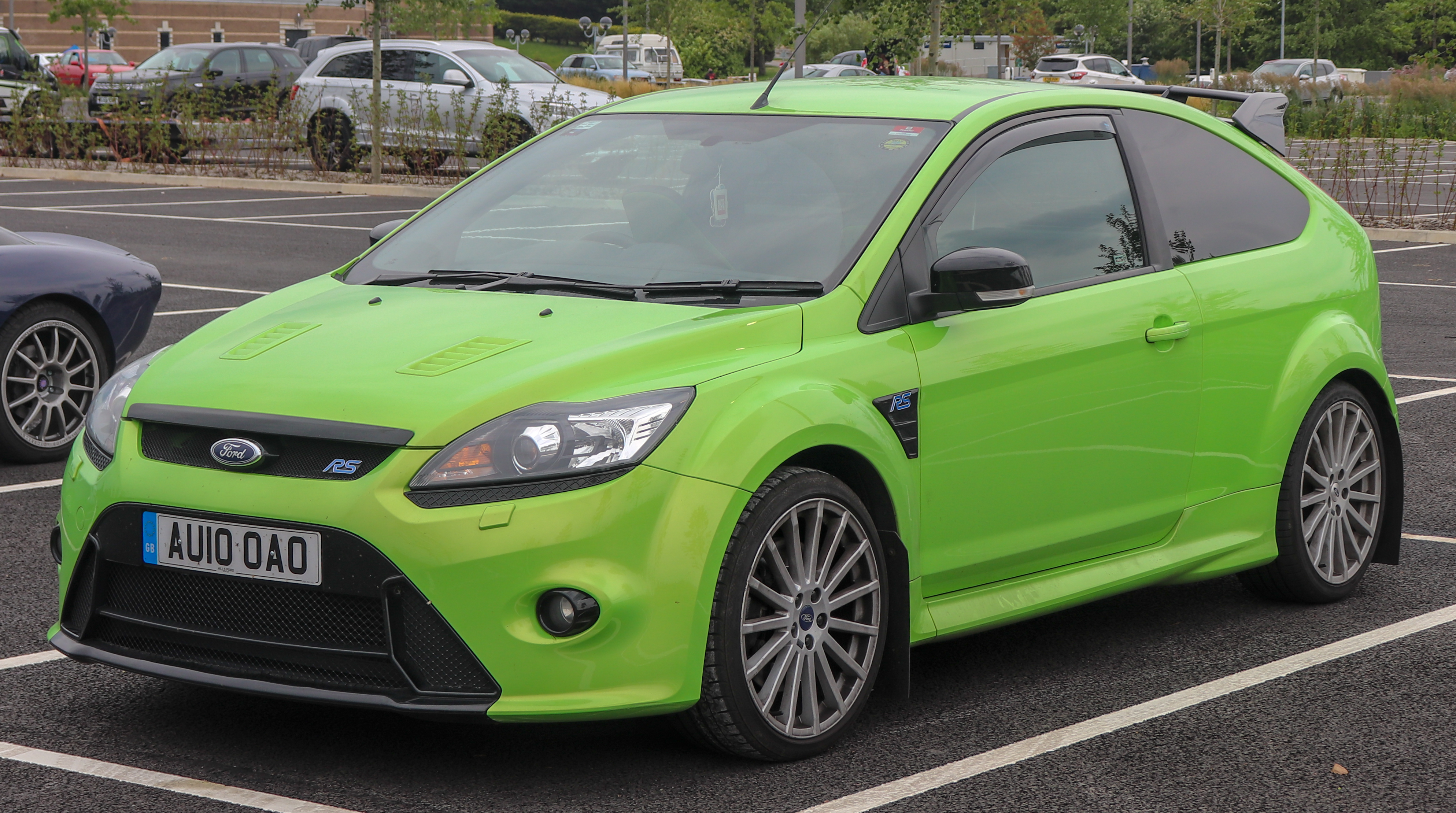 2010 Ford Focus RS 2.5 Front Taken at the British Motor Museum, Gaydon